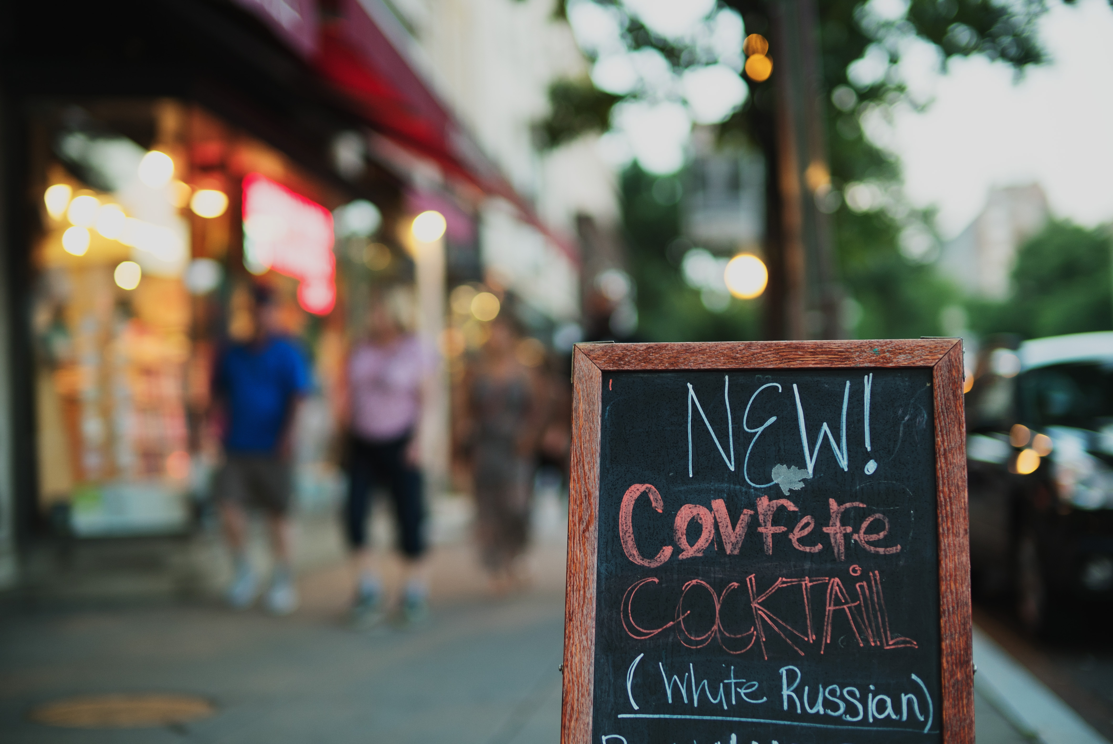 Outside Kramerbooks & Afterwords Cafe on Connecticut Avenue near Dupont Circle, Washington, DC.